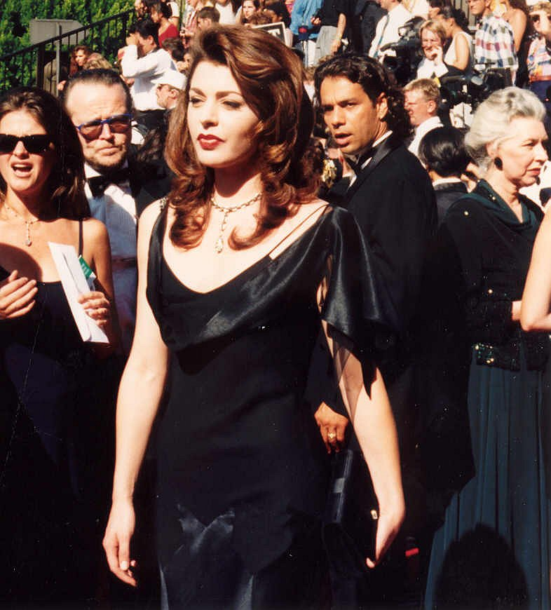 Jane Leeves on the red carpet at the Emmys 9/11/94